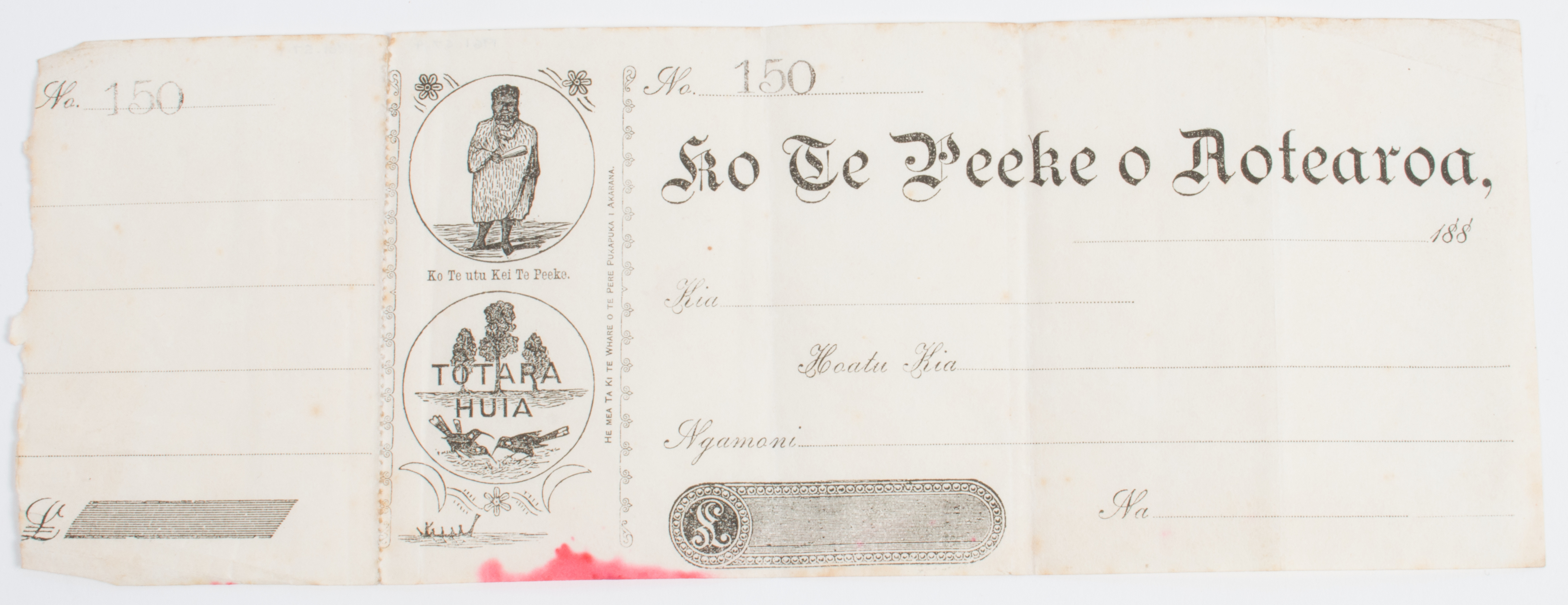 bank cheque - Ko te Peeke o Aotearoa - Kotahi Pauna - No 50, 188- unused cheque with butt attached; perforations on lhs printed on paper illustrated on left hand side- top circle- Maori warrior wearing cloak holding mere at top with text 'Ko Te Utu Kei te Peeke'; bottom circle- totara trees and huia birds and script- TOTARA - HUIA below- two crescent moons, flower, and canoe